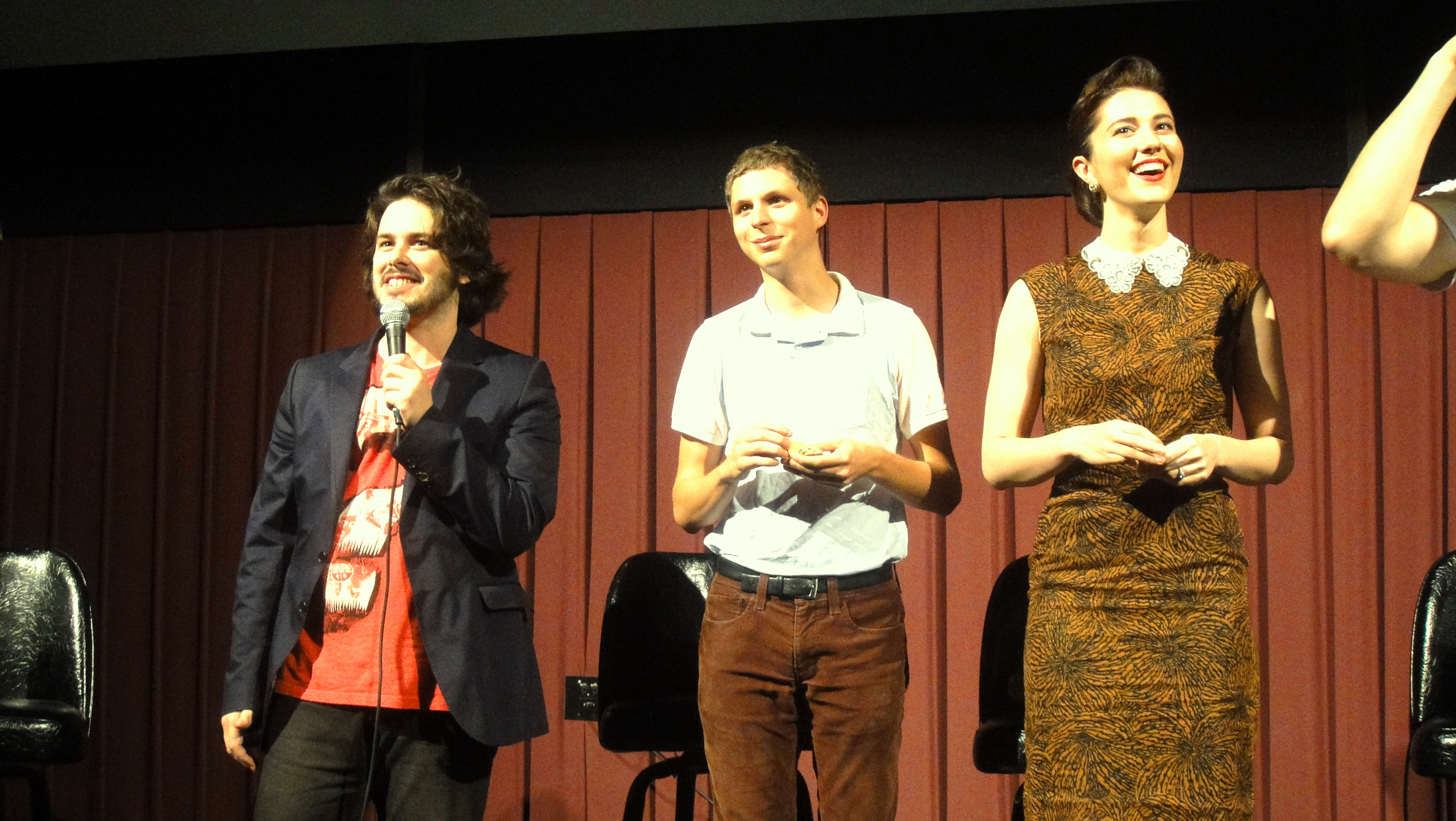 Mary Elizabeth Winstead at the Scott Pilgrim vs. The World, Austin Alamo Drafthouse (South Lamar) 2010.